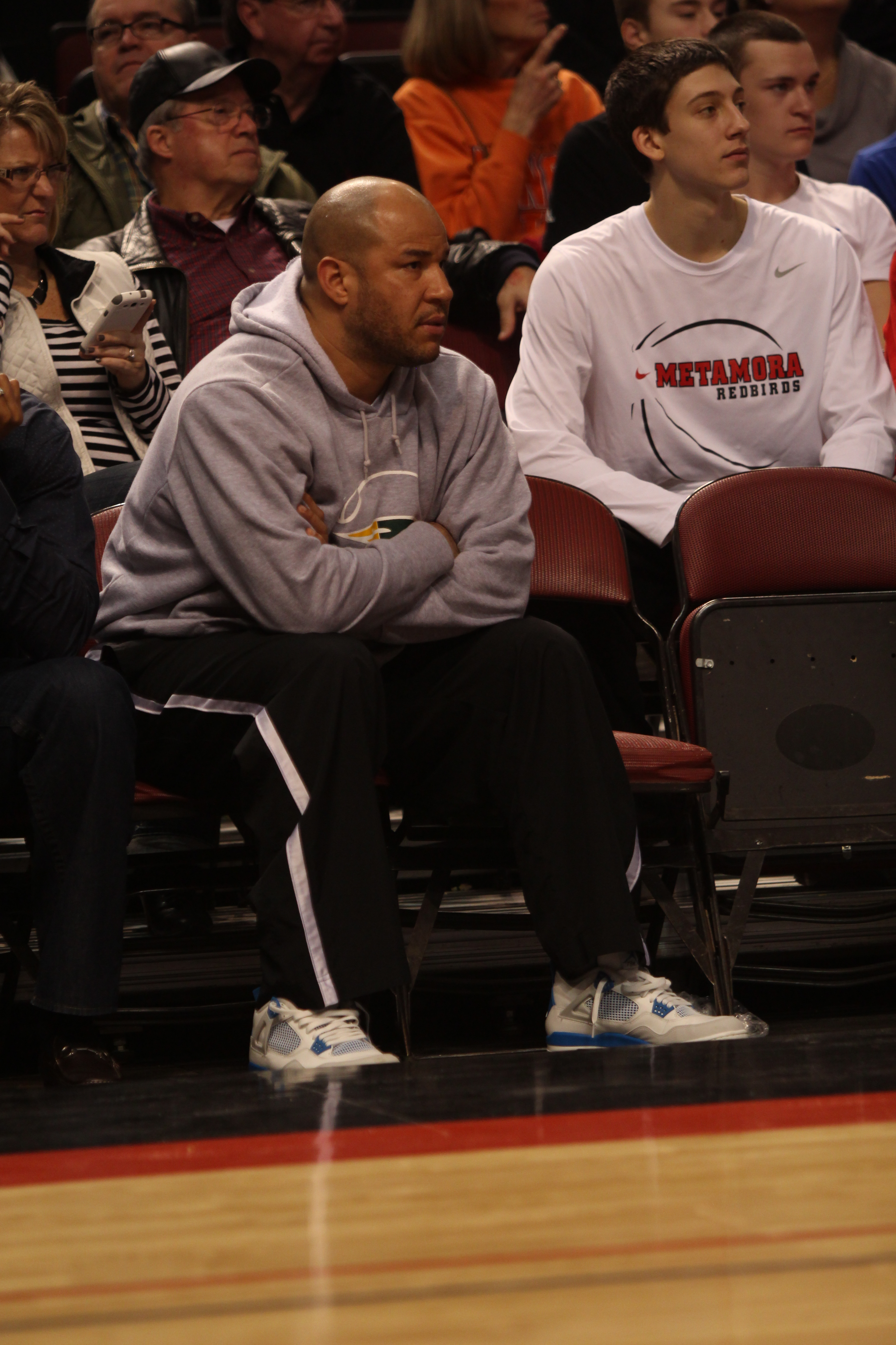 Rick Brunson at the 2014 Illinois High School Association final four